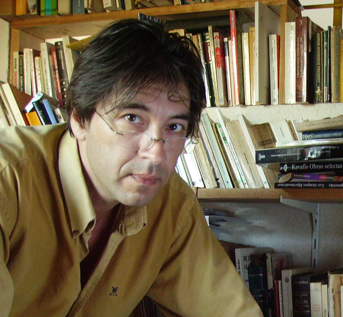 Carlos Rehermann